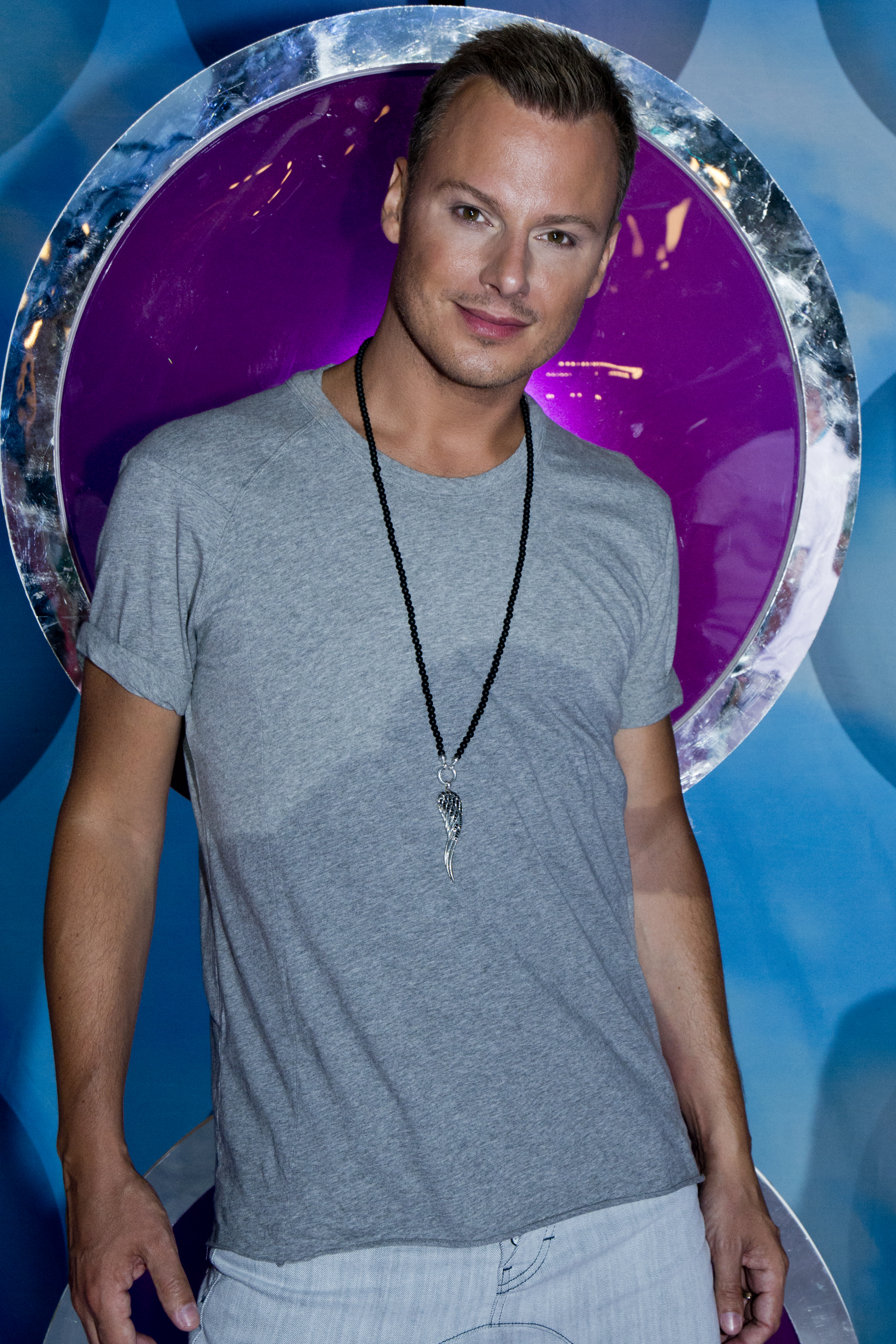 Magnus Carlsson at Sommarkrysset, Gröna Lund (Stockhom)